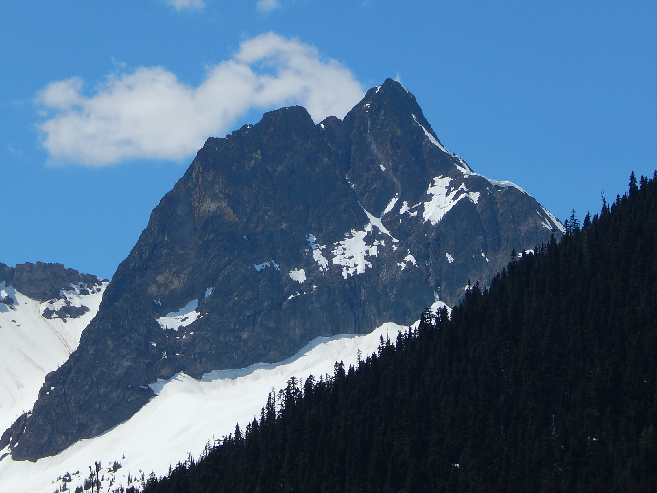 Fisher Peak 8060' seen from North Cascades Highway at Swamp Creek